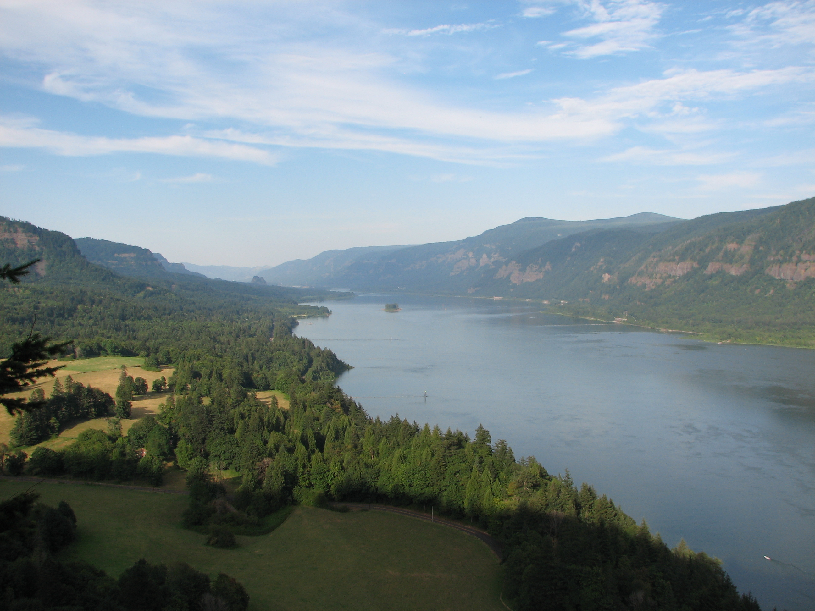 Photo Credit: John Russell Capture Date: July 21, en:2006 Location: Cape Horn; Columbia River Gorge, Washington